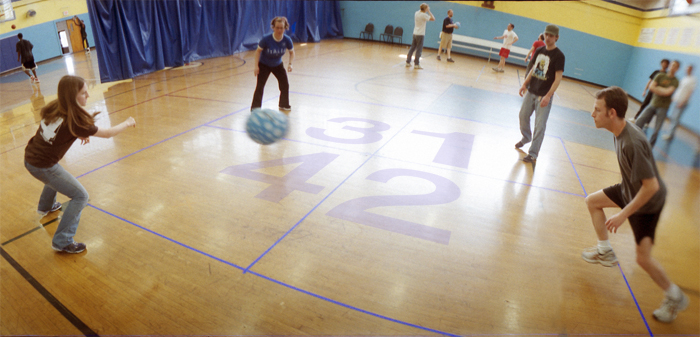 This is a graphical representation of a four square court. Notice how the highest square (number four) is diagonally acrossed from the lowest square (number one).